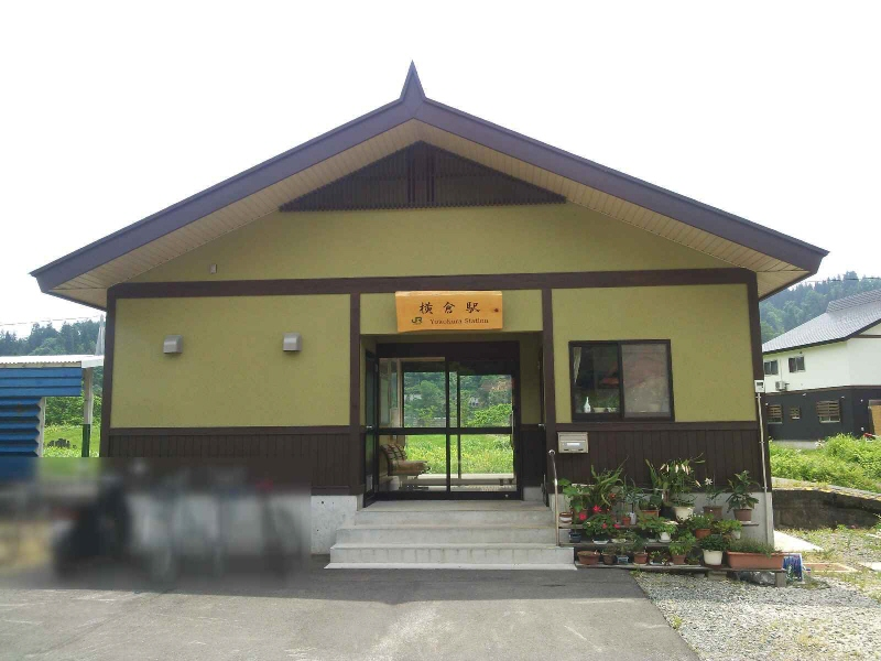 New building of Yokokura Station, Sakae Village, Nagano Prefecture, Japan